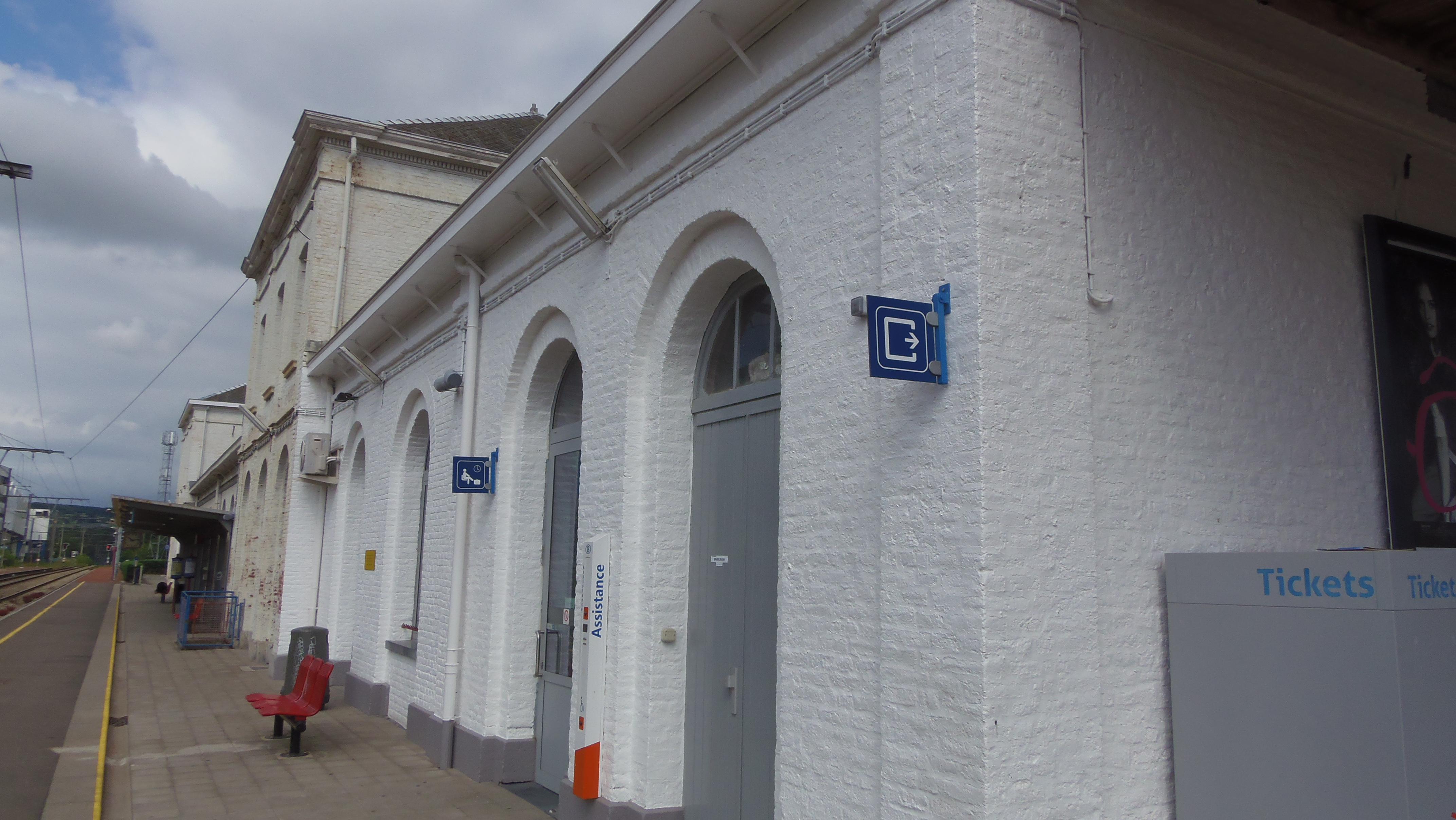 station building of Spa